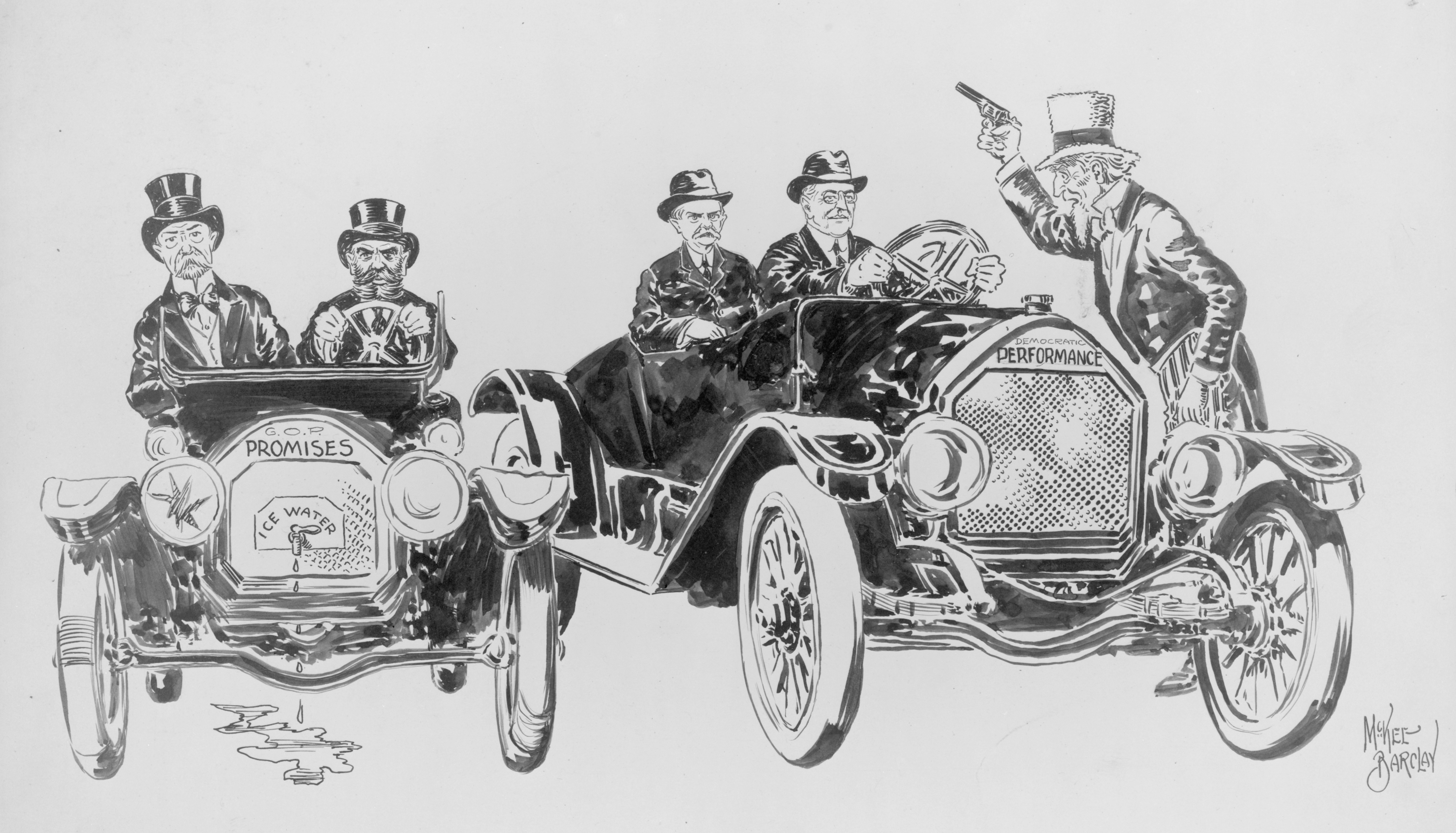 1916 political cartoon of the U.S. Presidential race by cartoonist McKee Barclay of the Baltimore "Sun". Republican and Democratic party presidential candidates are shown in automobiles about to race. At left, the Republican ticket, Vice Presidential candidate Charles Fairbanks with Presidential Candidate Charles Evans Hughes at the steering wheel, in a dented auto with worn tires, labeled "G.O.P. Promises", the radiator leaking "ice water". To the right is a larger auto labeled "Democratic Performance" holds Democratic Vice Presidential candidate Thomas R. Marshall and sitting President Woodrow Wilson behind the wheel. At far right, Uncle Sam raises a starting pistol.